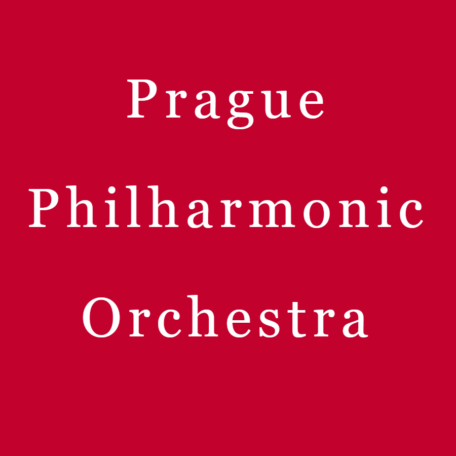 Prague Philharmonic Orchestra Logo